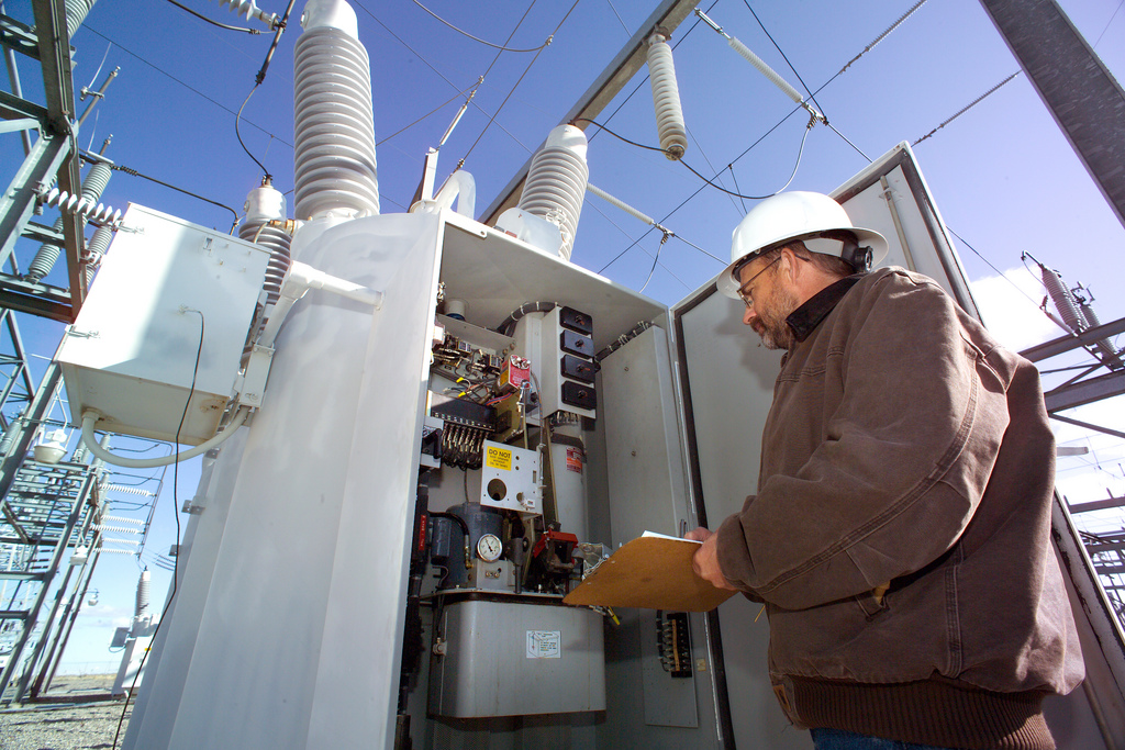 An Idaho National Laboratory power engineer examines breaker settings inside the yard of an electric substation. For more information or additional images, please contact 202-586-5251.